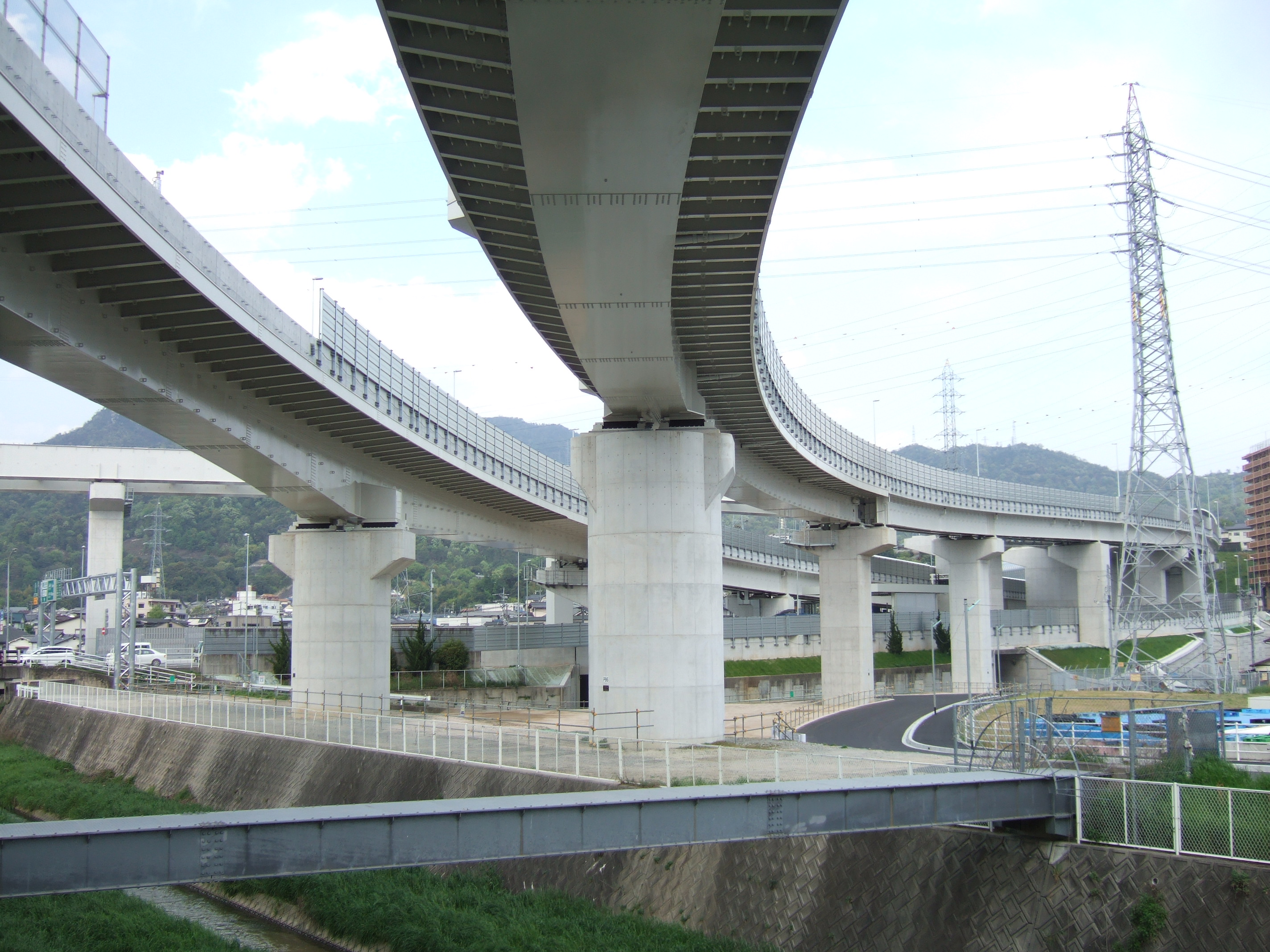 Nukushina Junction, Part connecting Hiroshima Expressway 1 with 2) 広島高速 温品ジャンクション 1,2号線接続部分